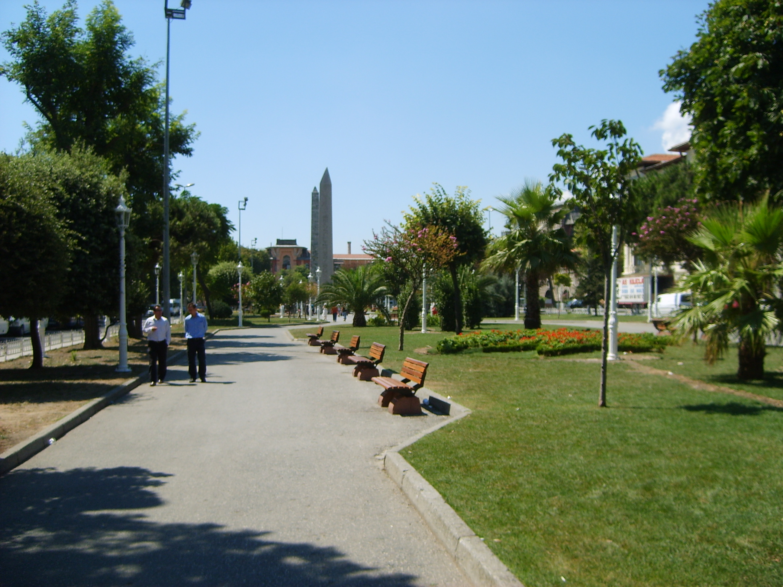 Hippodrome of Constantinople